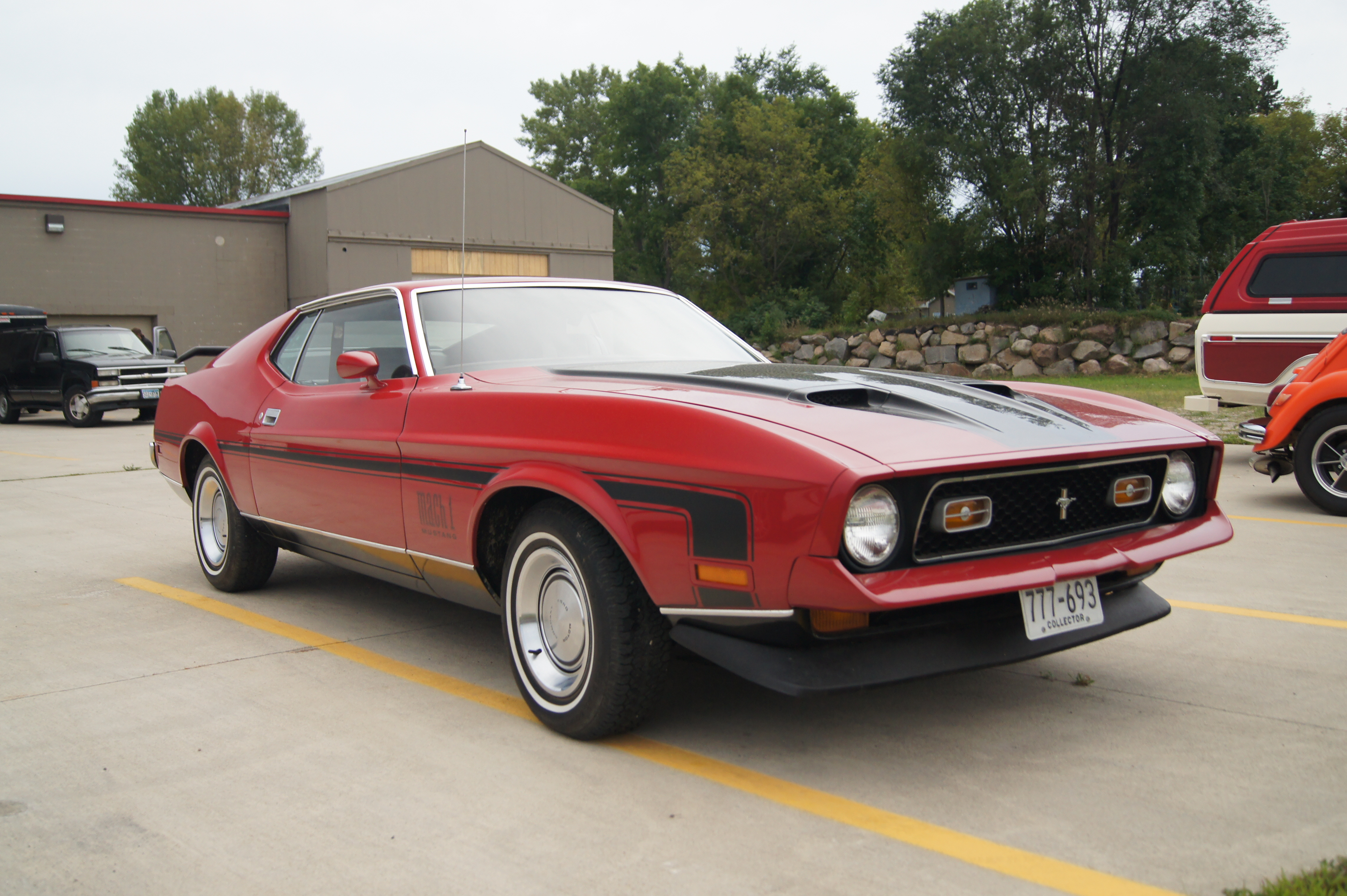 351 V-8 Manual Transmissin Original condition, nice paint, nice interior, This car runs and drives great! Call with questions 320-292-9236 26th Annual New London to New Brighton Antique Car Run August 11, 2012.